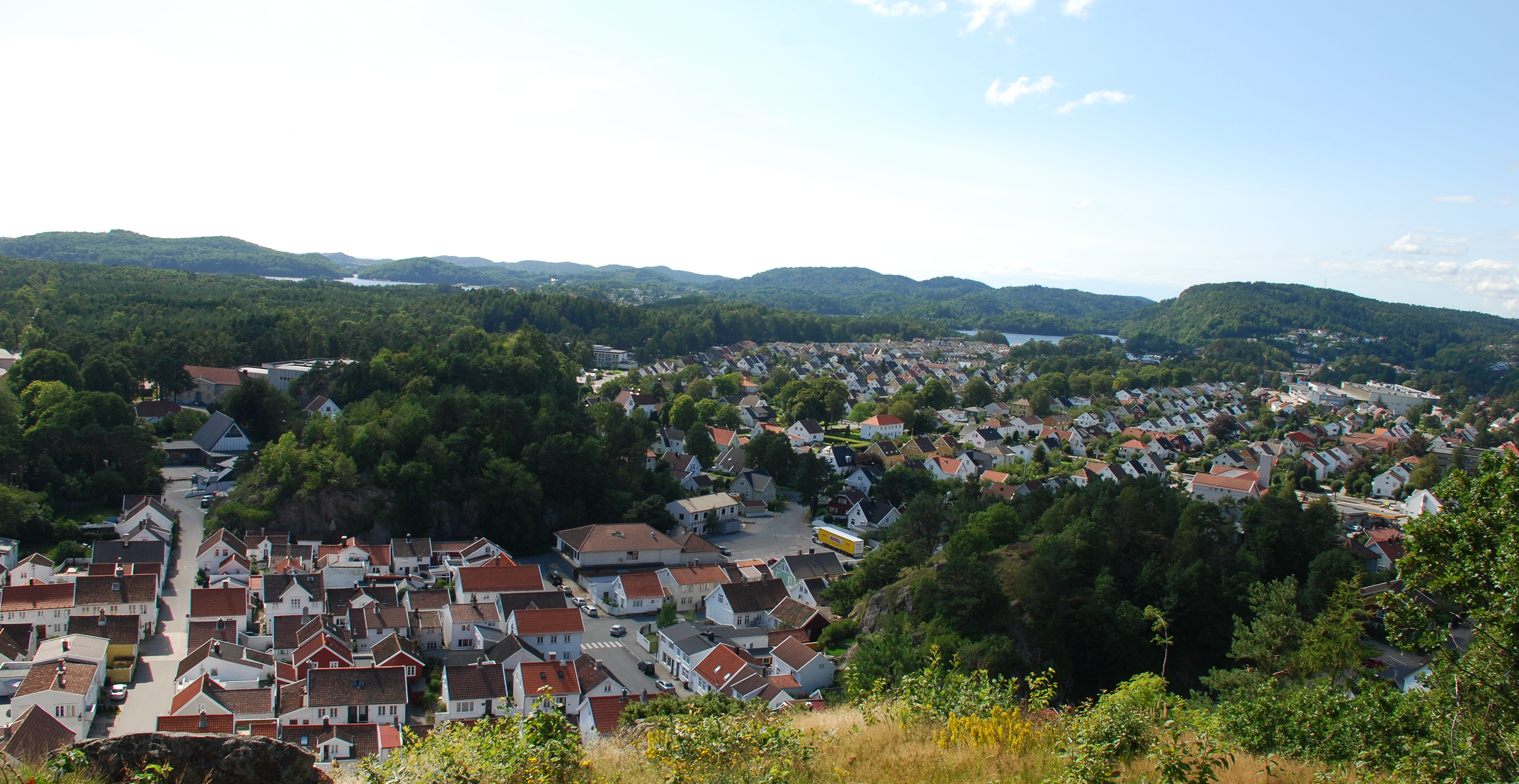 Neighbourhoods Vestnes and Støkkan in Mandal town, Norway.